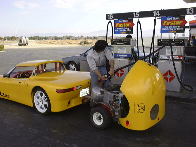 Backtracking genset trailer for "unlimited" range. For AC Propulsion tzero